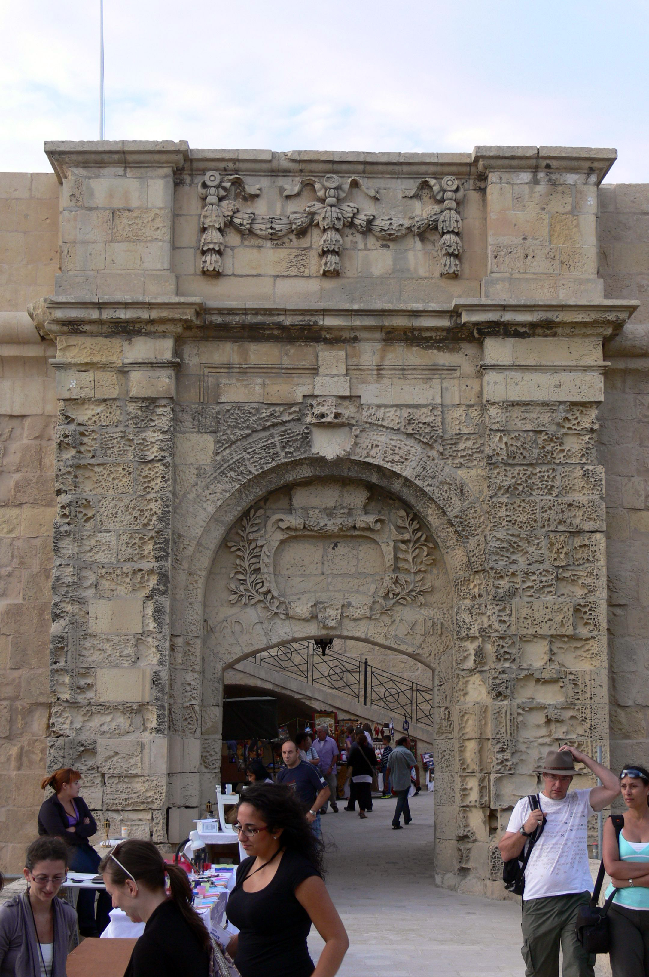 The Advanced Gate (Il-Birgu, Citta Vittoriosa) This media is about Maltese cultural property with inventory number 1523.